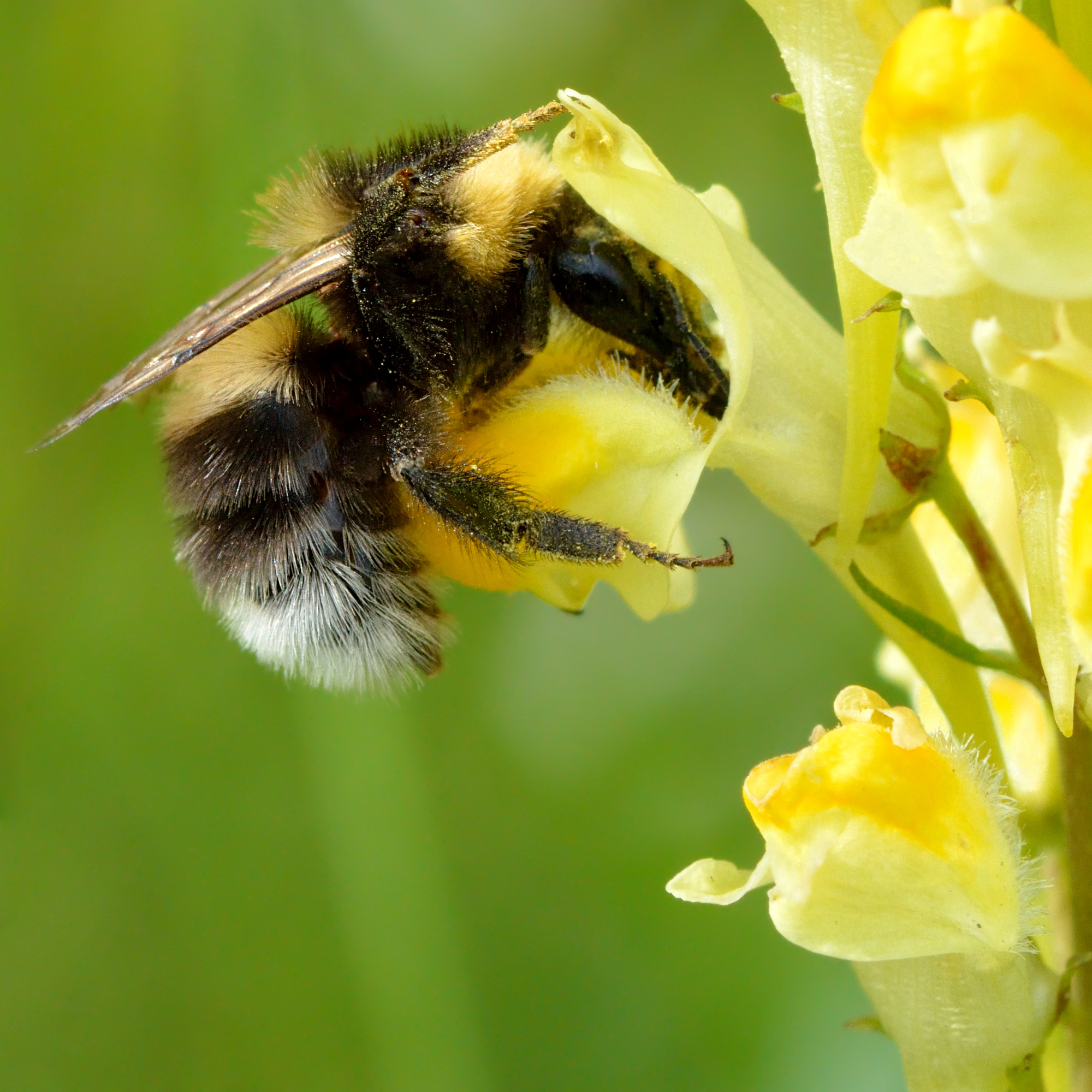 Garden bumblebee (Bombus hortorum) on the common toadflax (Linaria vulgaris). Valingu, Northwestern Estonia.